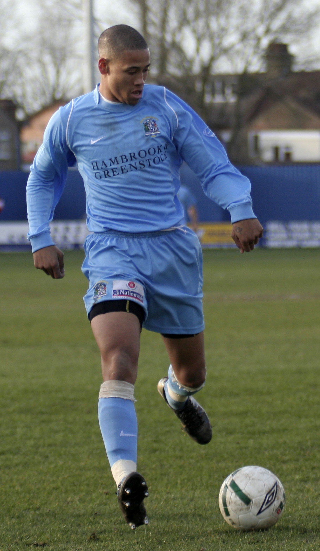 Footballer Alex Rhodes playing for Grays Athletic. Taken by Spencer Jarvis